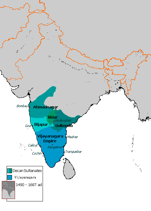 The factual accuracy of this diagram or the file name is disputed.Reason: The map is grossly incorrect and the original research of a user, with no citation to an external source for its data. It reconstructs history of the Indian subcontinent, misrepresents geographical reach and details. Some of these Sultanates shown above did not exist between 1490 and 1687. Vijayanagara Empire shown above was not a Sultanate.For usage see: disputed diagram|why Map of the Muslim Deccan sultanates and Hindu Vijayanagara Empire (1490-1687)